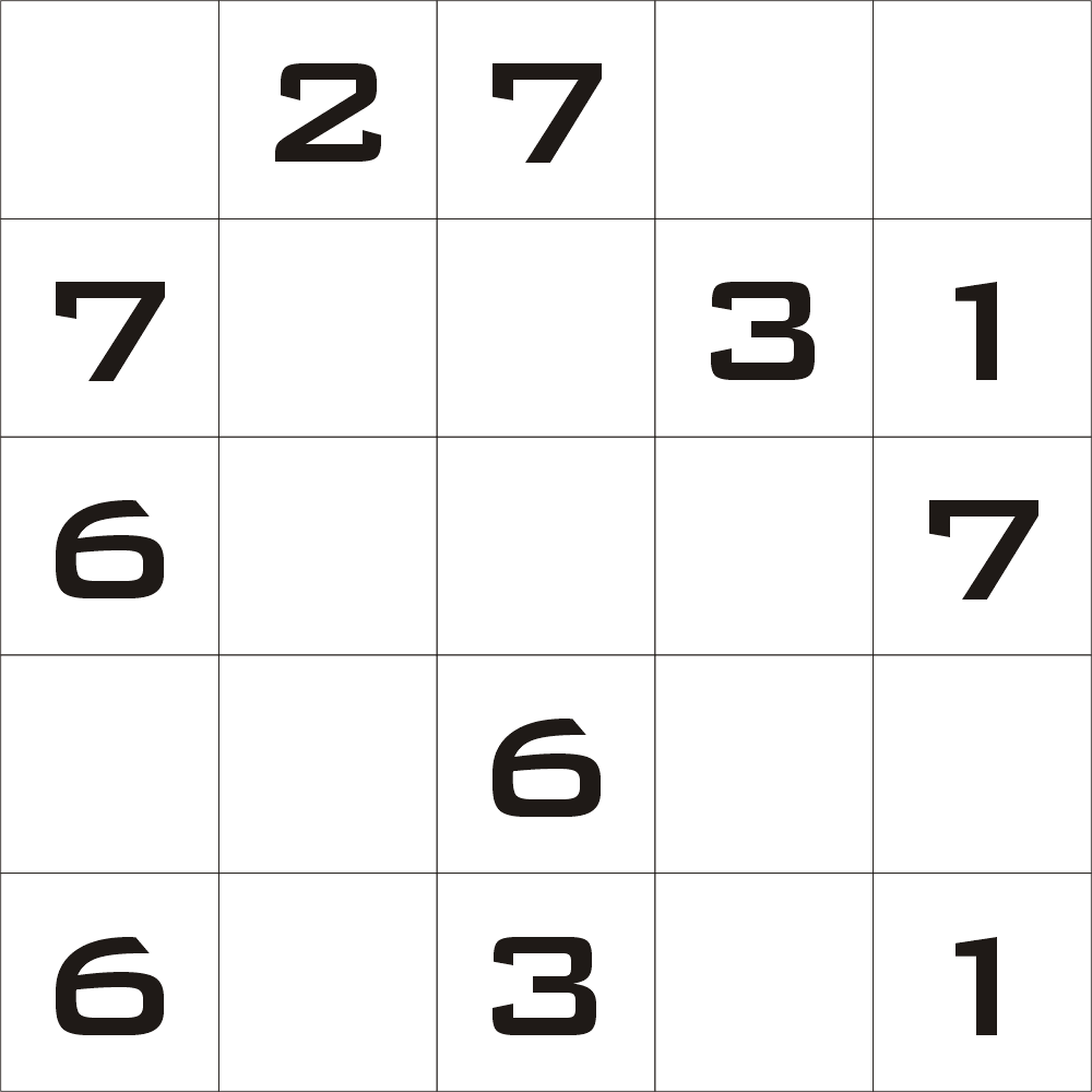 A Fillomino